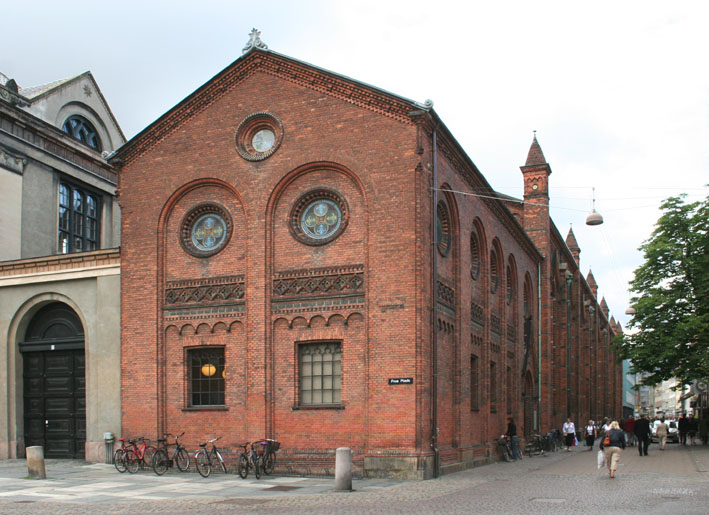 University libraray Copenhagen, architect J D Herholdt, 1855-61